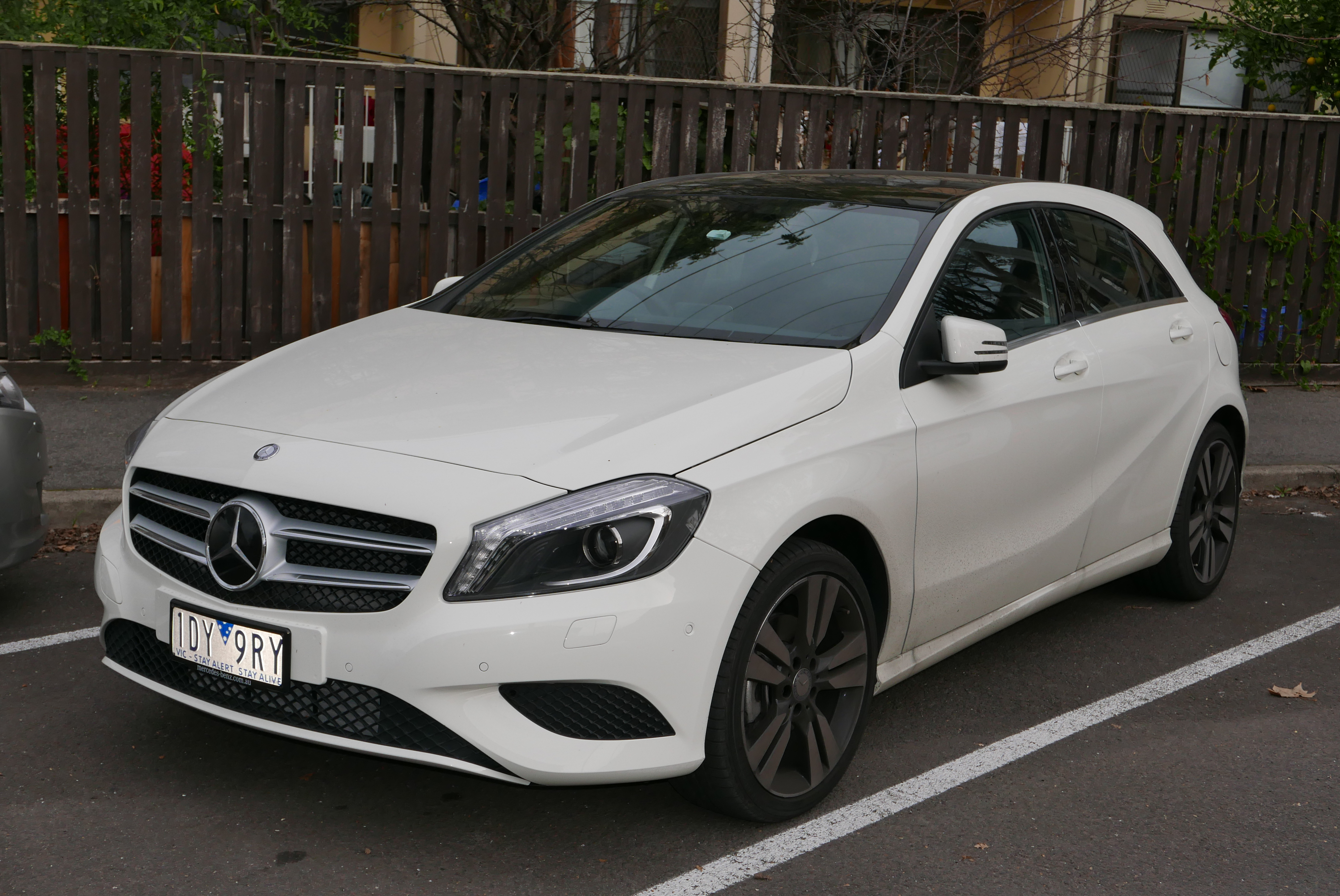 2015 Mercedes-Benz A 200 CDI (W 176) hatchback. Photographed in Northcote, Victoria, Australia. Vehicle registration enquiry resultsJurisdictionVictoriaRegistration1DY9RYChassis codeWDD1760082V046978Engine code65193032581943Compliance date2015-02Year of manufacture2015